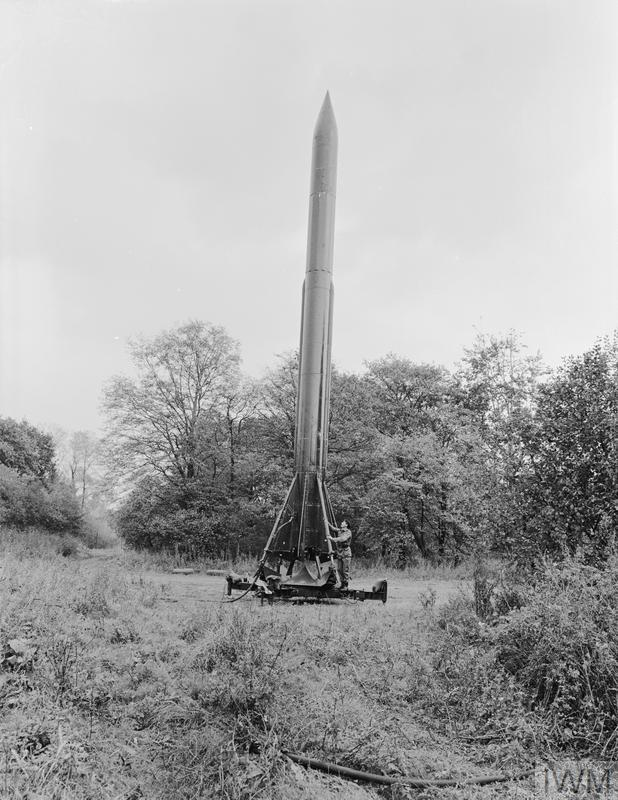 ROCKETS AND MISSILES An NCO of the Royal Regiment of Artillery carries out final checks on a Corporal ground to ground guided ballistic rocket before it is fired, West Germany.